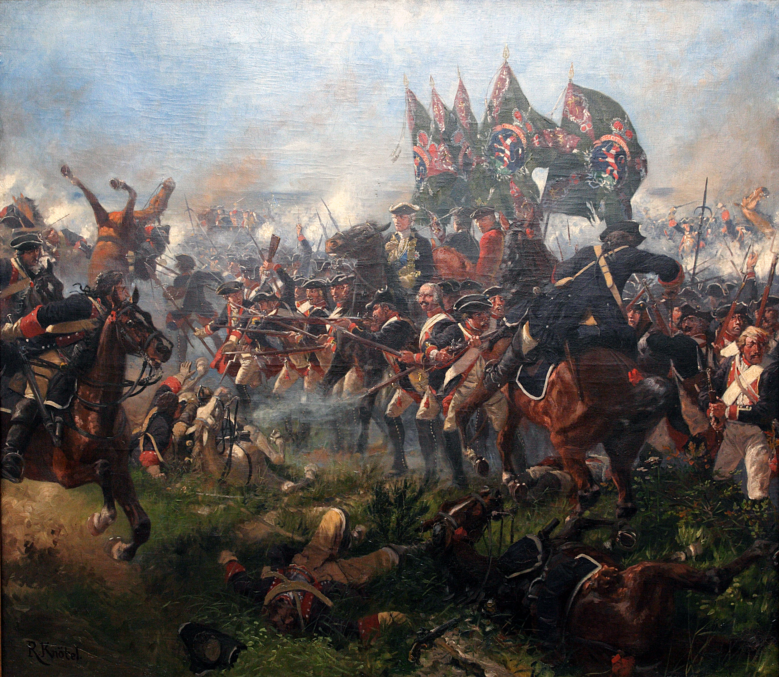 Infantry of Hessen-Kassel at the battle of Krefeld (Seven Years war)